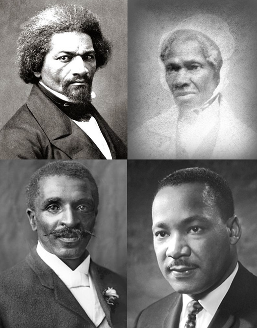 Historical African-American Figures. Prominent Black Social reformers and intellectuals. Clockwise from top left: 1. Abolitionist Frederick Douglas (1818–1895) 2. Activist Sojourner Truth (1797–1883) 3. Activist Martin Luther King, Jr. (1929–1868) 4. Scientist George Washington Carver (1864–1943)